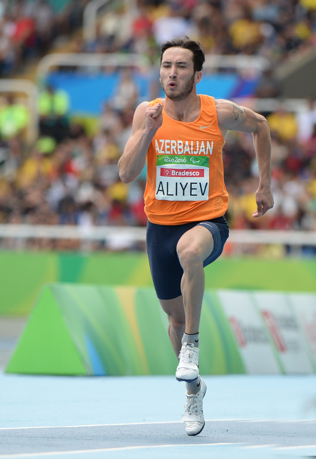 Kamil Aliyev at the 2016 Summer Paralympics – Men's long jump (T12)